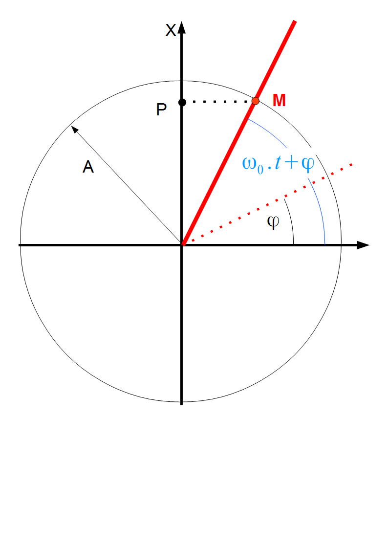 Harmonic motion